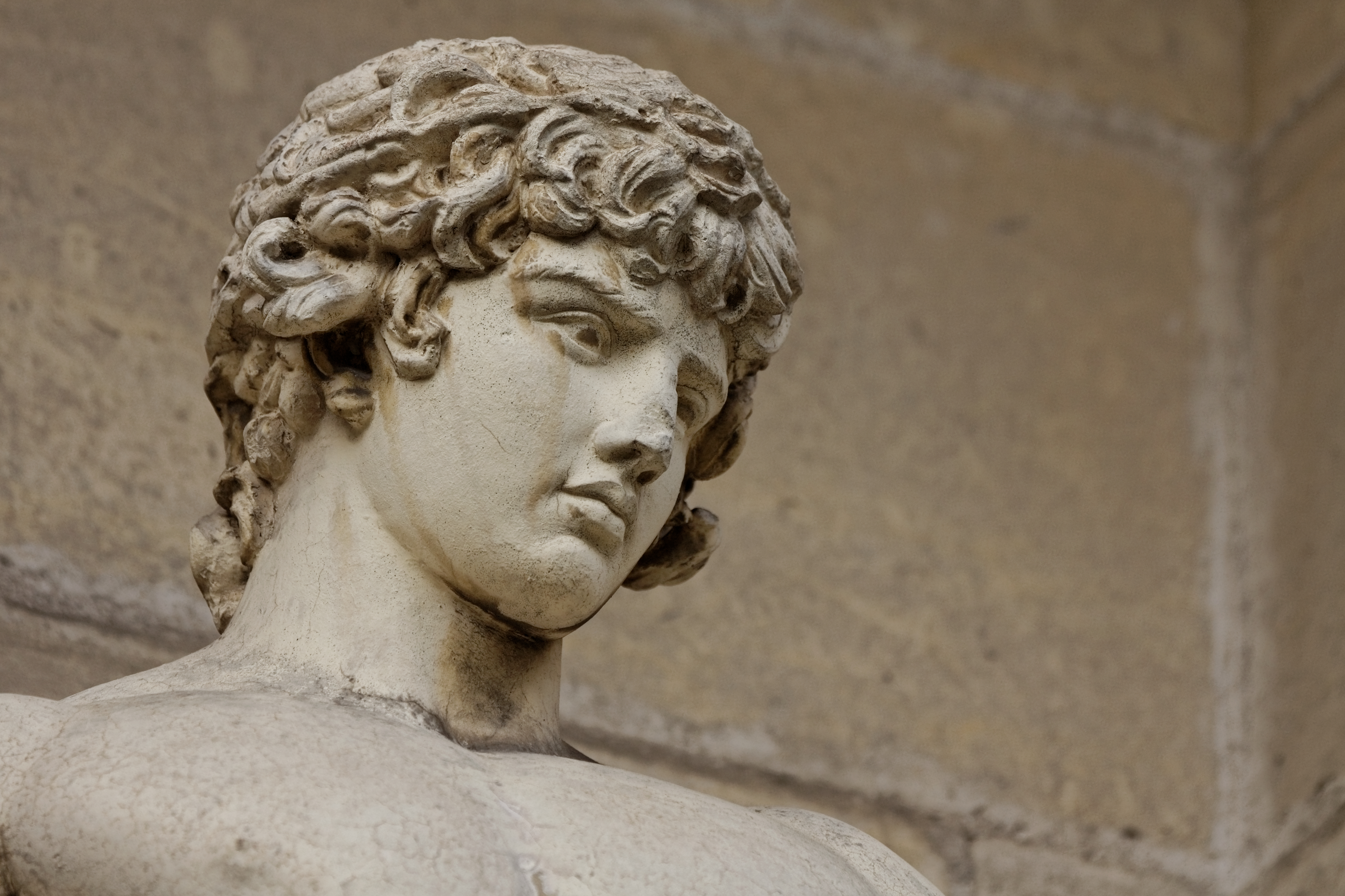 Modern copy of the Delphi Antinous, Château de Vincennes.